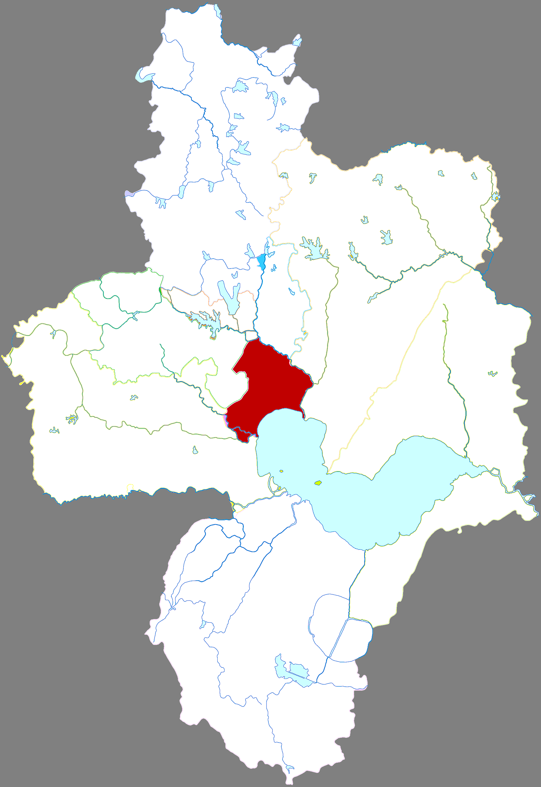 Location of Baohe district in Hefei city, China